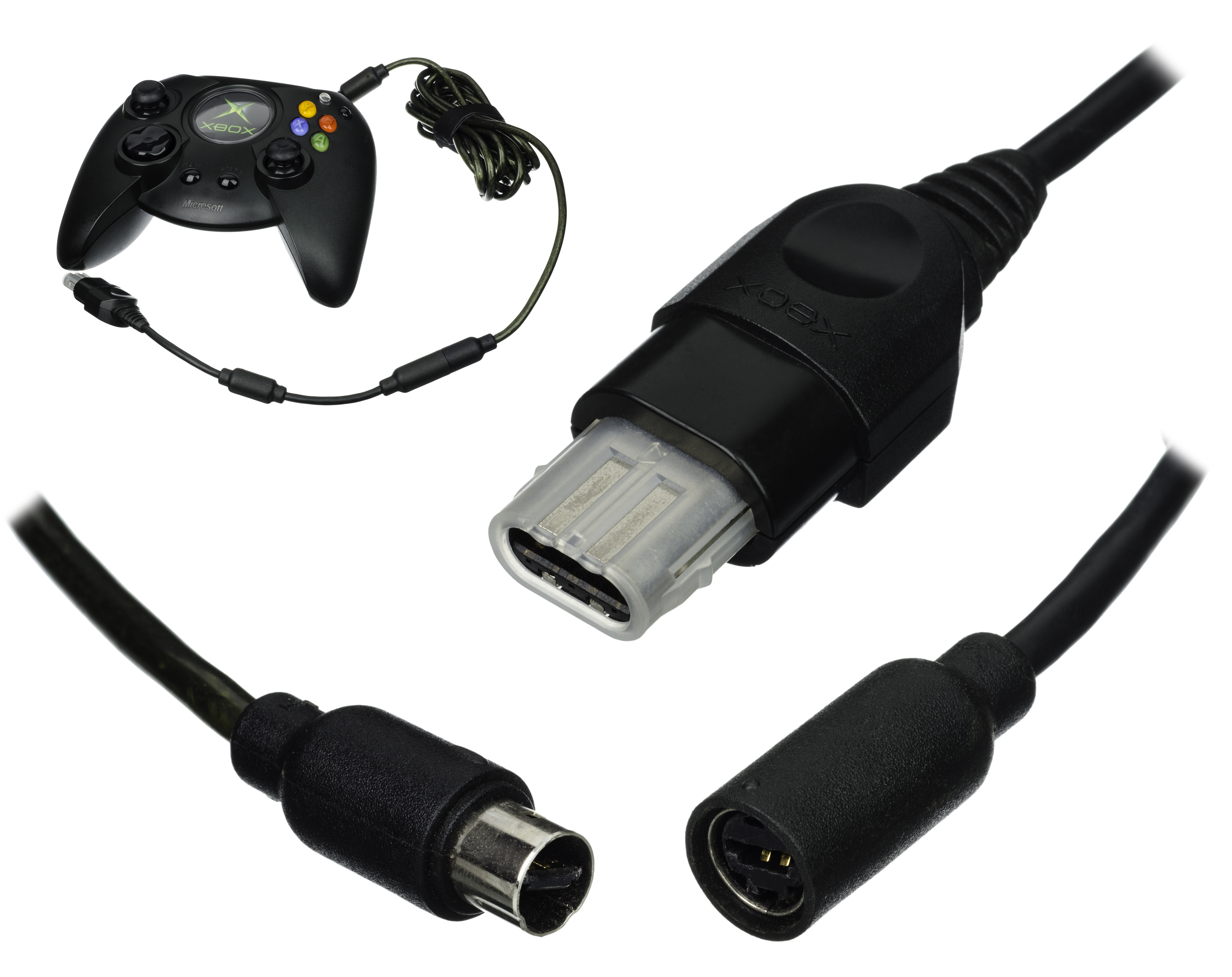 The controller for the Xbox, a sixth-generation gaming console made by Microsoft that was first released in 2001. The Xbox was Microsoft's first foray into the gaming console market, and was followed by the Xbox 360 in 2005. The console is notable for having a built-in hard drive, breakaway controller dongles and an Ethernet port to support Microsoft's online gaming service, Xbox Live. This picture shows the "Duke" controller, and highlights the breakaway dongle and connection plug. The breakaway dongle was designed so if one tripped over the cord, it would harmlessly breakaway from the console, rather than let the console potentially fall off a shelf or get violently jerked.